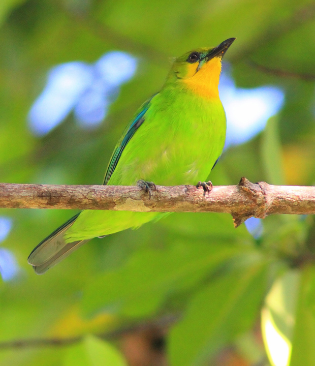 Yellow-throated Leafbird Chloropsis palawanensis